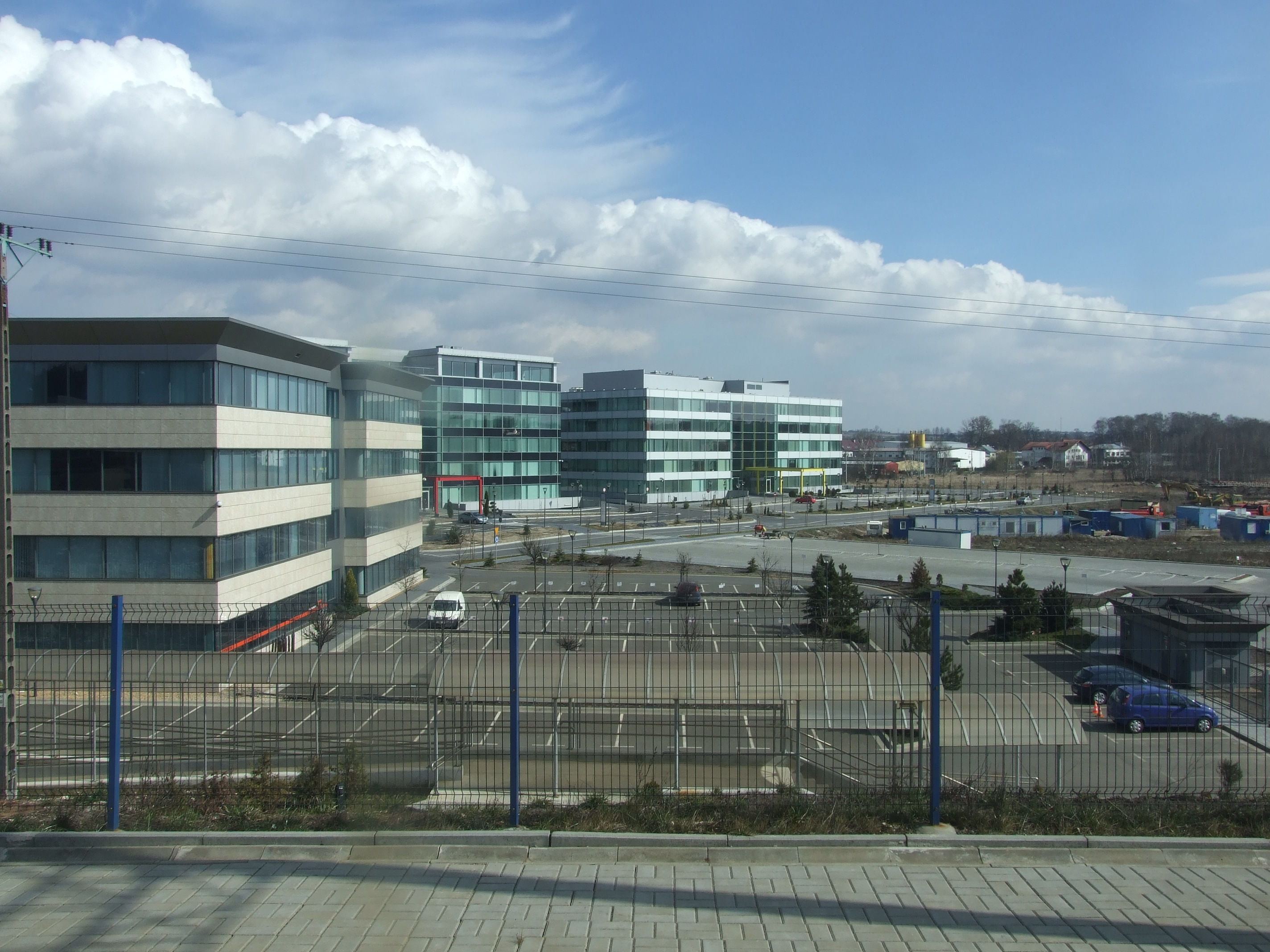 Business park near Krakow, PL